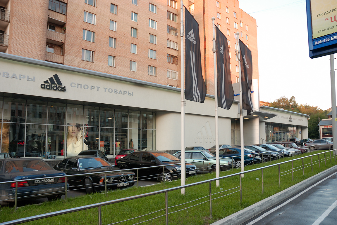 Adidas "Olymp" concept store in Moscow, Russia. The biggest Adidas store in Russian Federation.